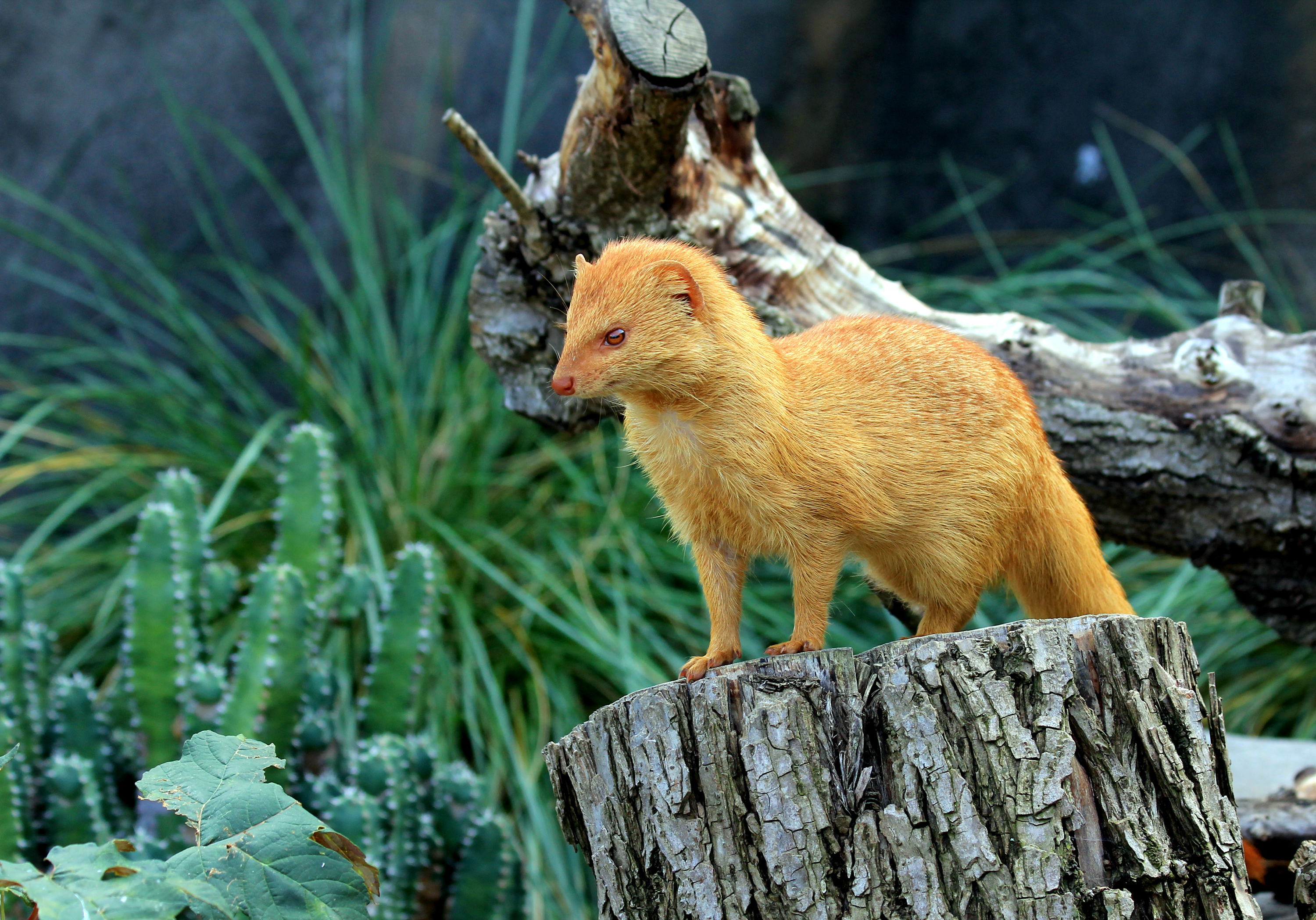 Slender Mongoose (Galerella sanguinea) in Prague Zoo, Czech Republic Česky: Promyka červená v Pražské zoologické zahradě